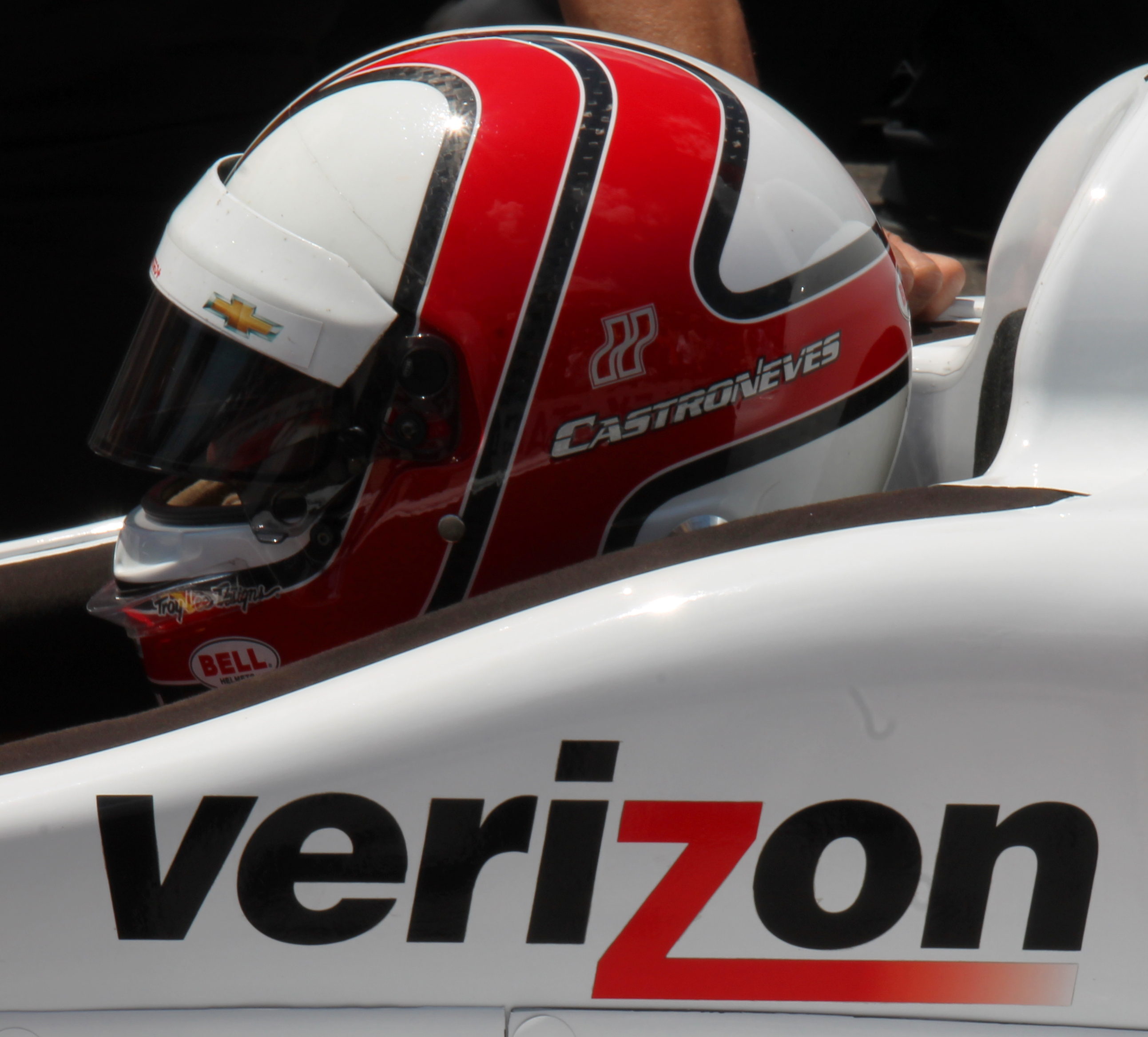 Hélio Castroneves participating in the Pit Stop Challenge at Carb Day 2015 at the Indianapolis Motor Speedway